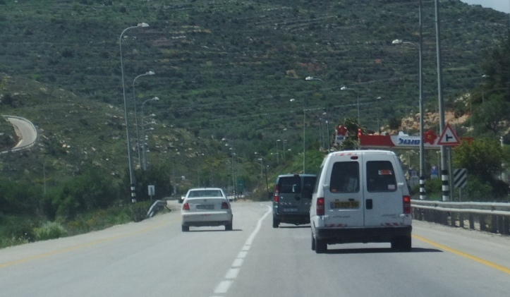 Vehicle crossing white line in passing ther vehicles, on road 60 heading north